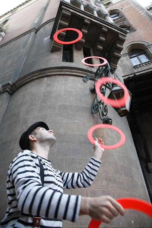 Juggler, Juggling, Illusion, illusionist, TRT, TRTÇOCUK, circus, circus eurasia